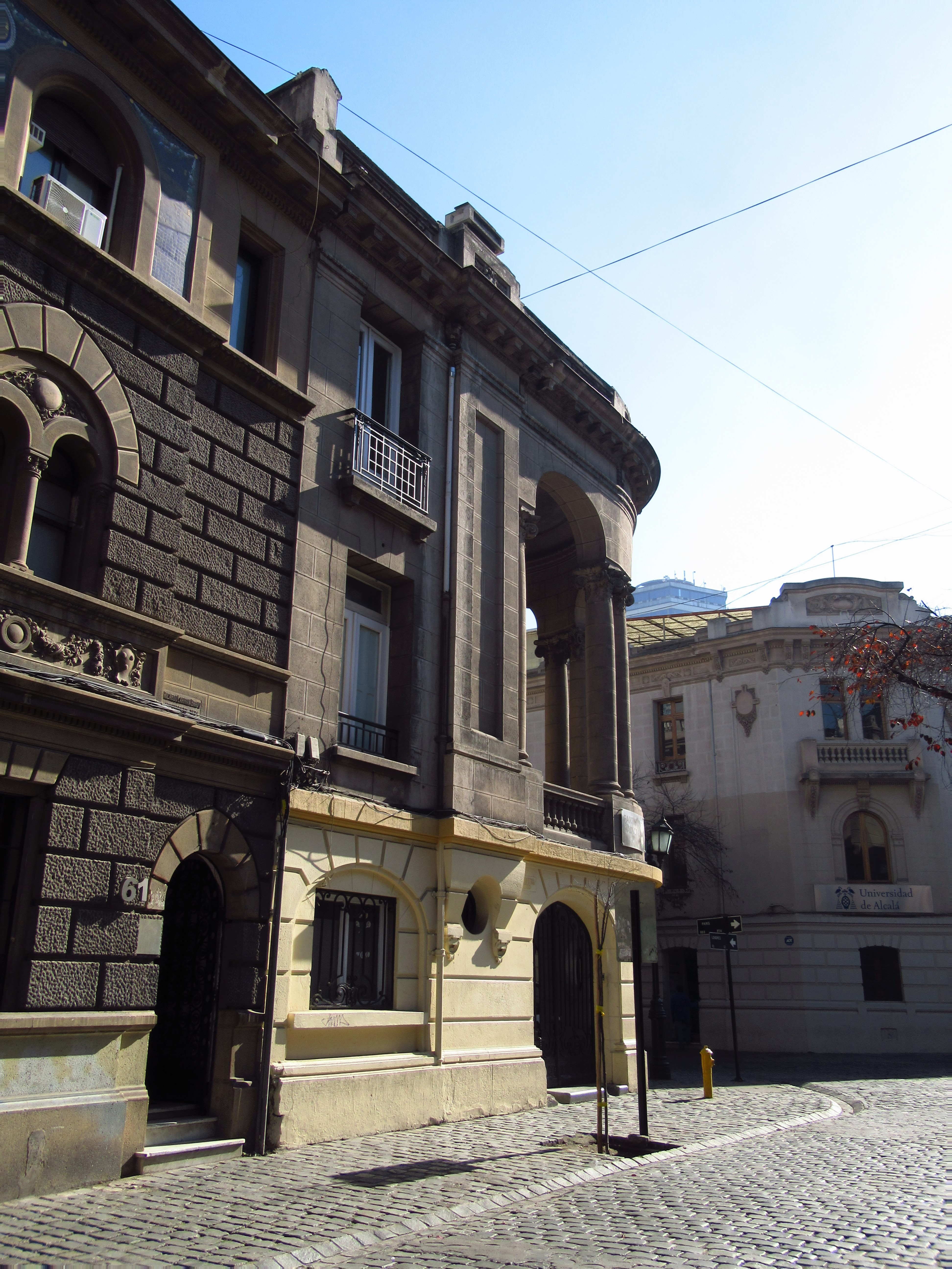 2017 in Santiago de Chile